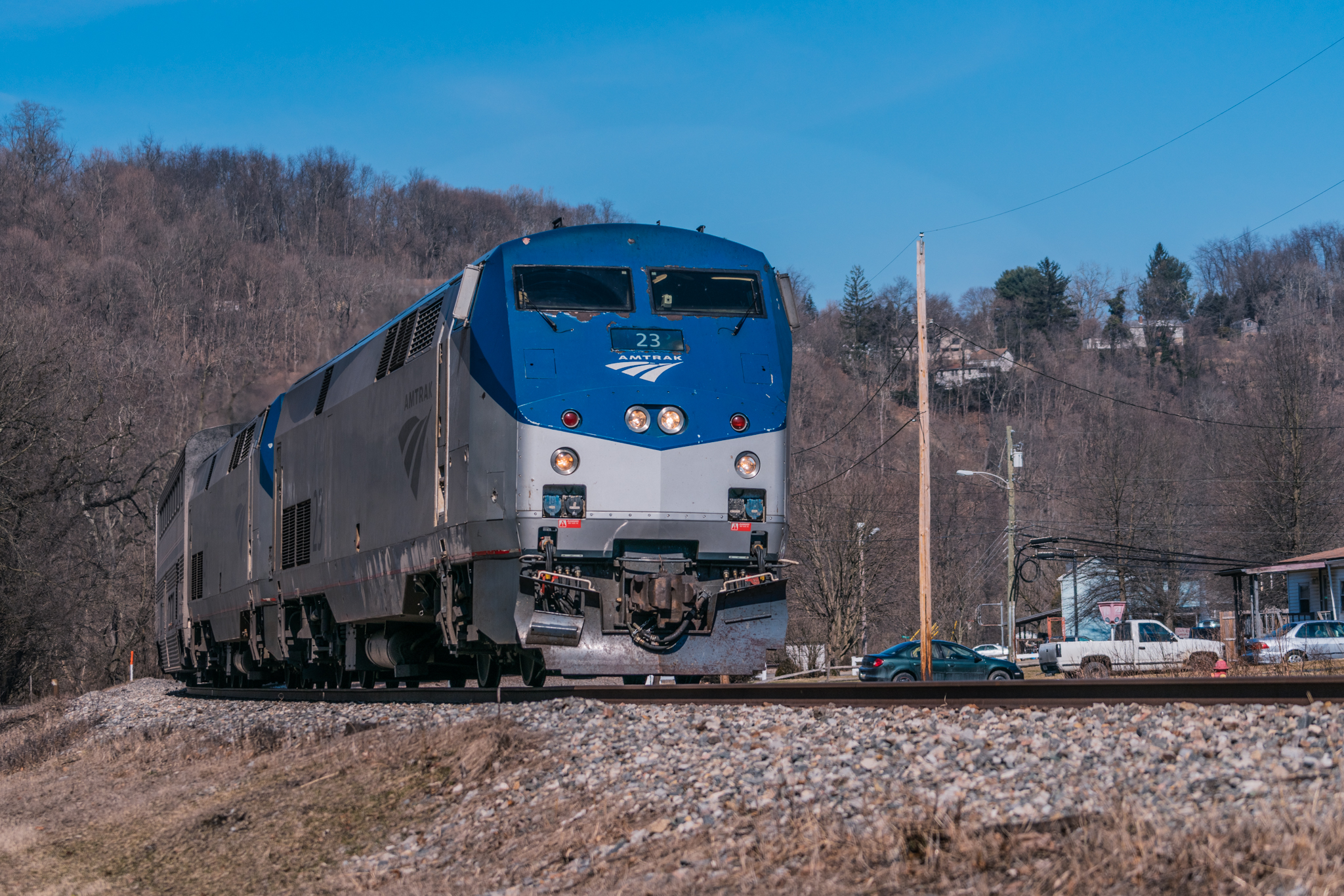 The Washington-bound Capitol Limited passing through Coulter, Pennsylvania in March 2019